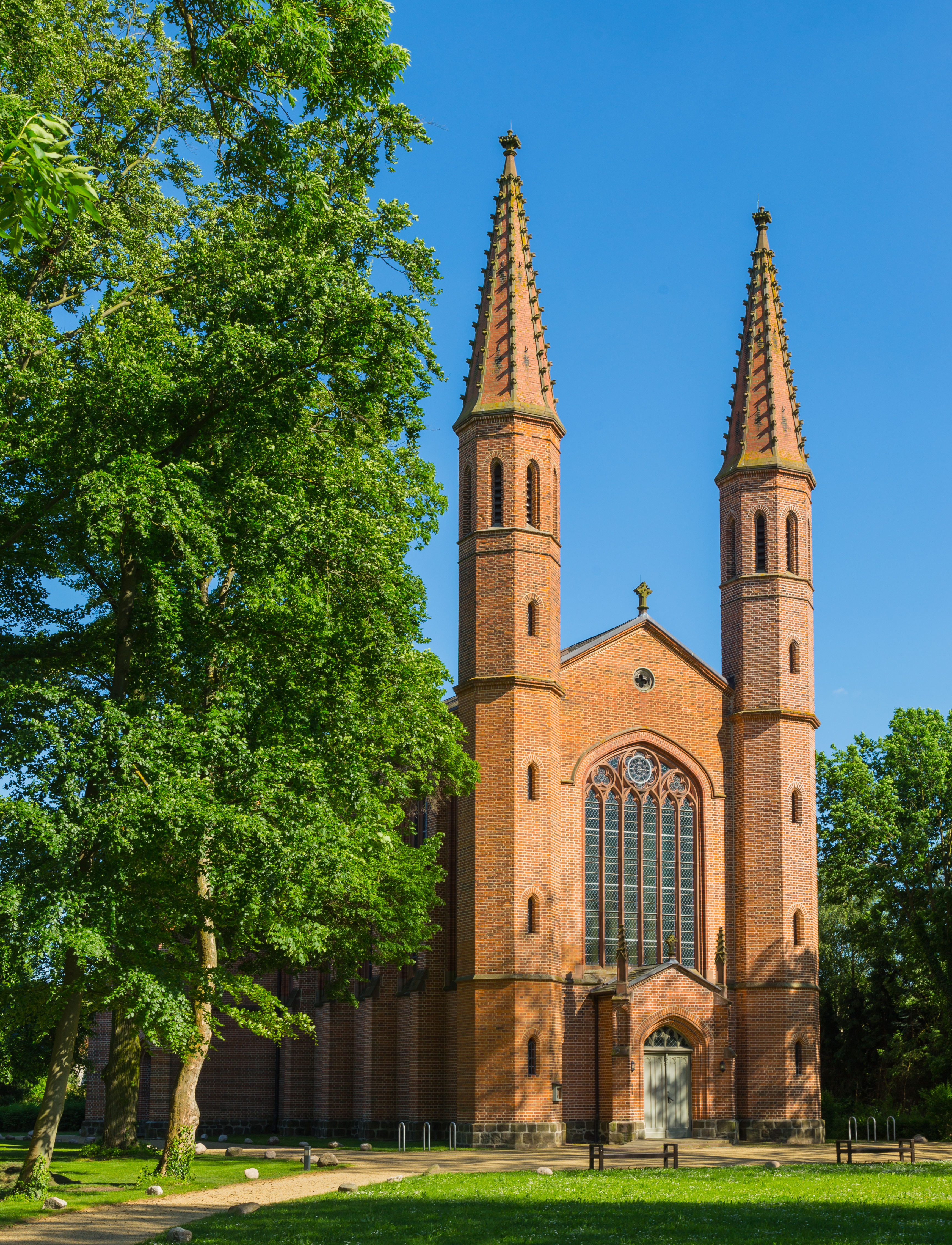 The Protestant Castle's Church (Schlosskirche Letzlingen) in Letzlingen, district of Gardelegen, Altmarkkreis Salzwedel, Saxony-Anhalt, Germany. The church is a listed cultural heritage monument.